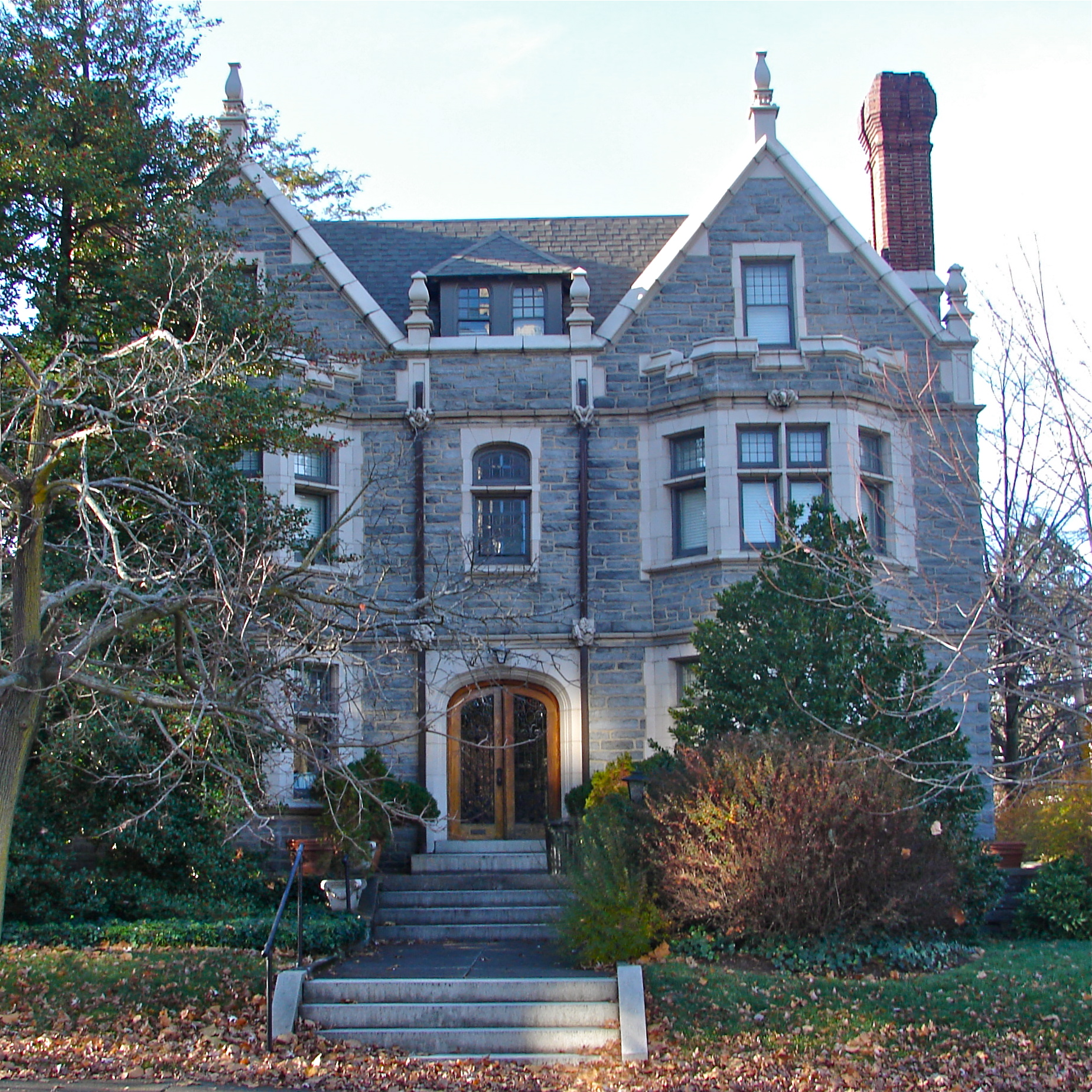 Postles House on the NRHP since November 12, 1982 . At 1007 N. Broom St., Wilmington, Delaware